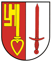 Coat of arms of Vorderthal, Canton Schwyz, Switzerland